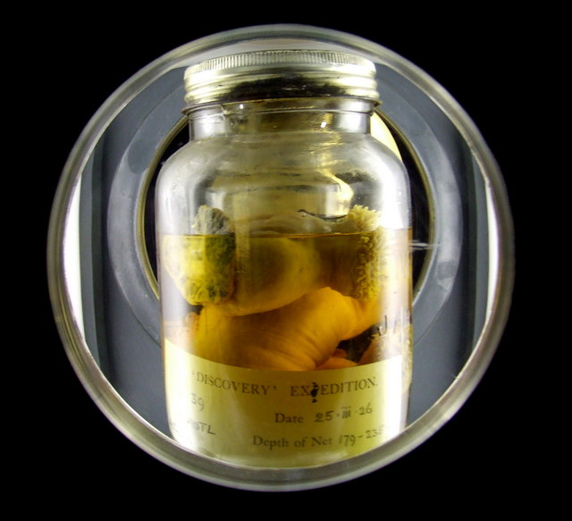 Specimen jar from the Discovery Preserved specimens of something unappealing. This forms part of the display at the Discovery Point visitor centre.